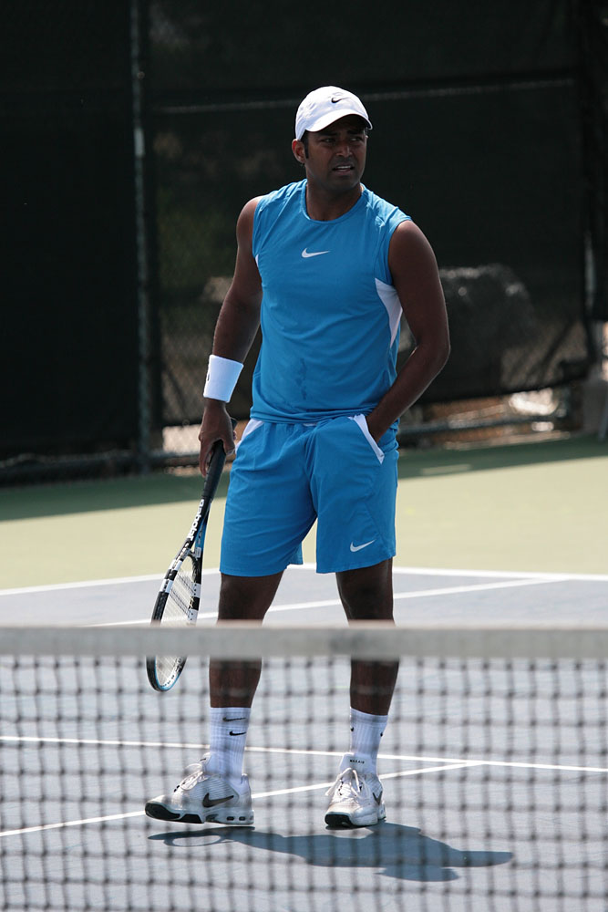 Leander Paes practising at the 2008 Western & Southern Financial Group Masters